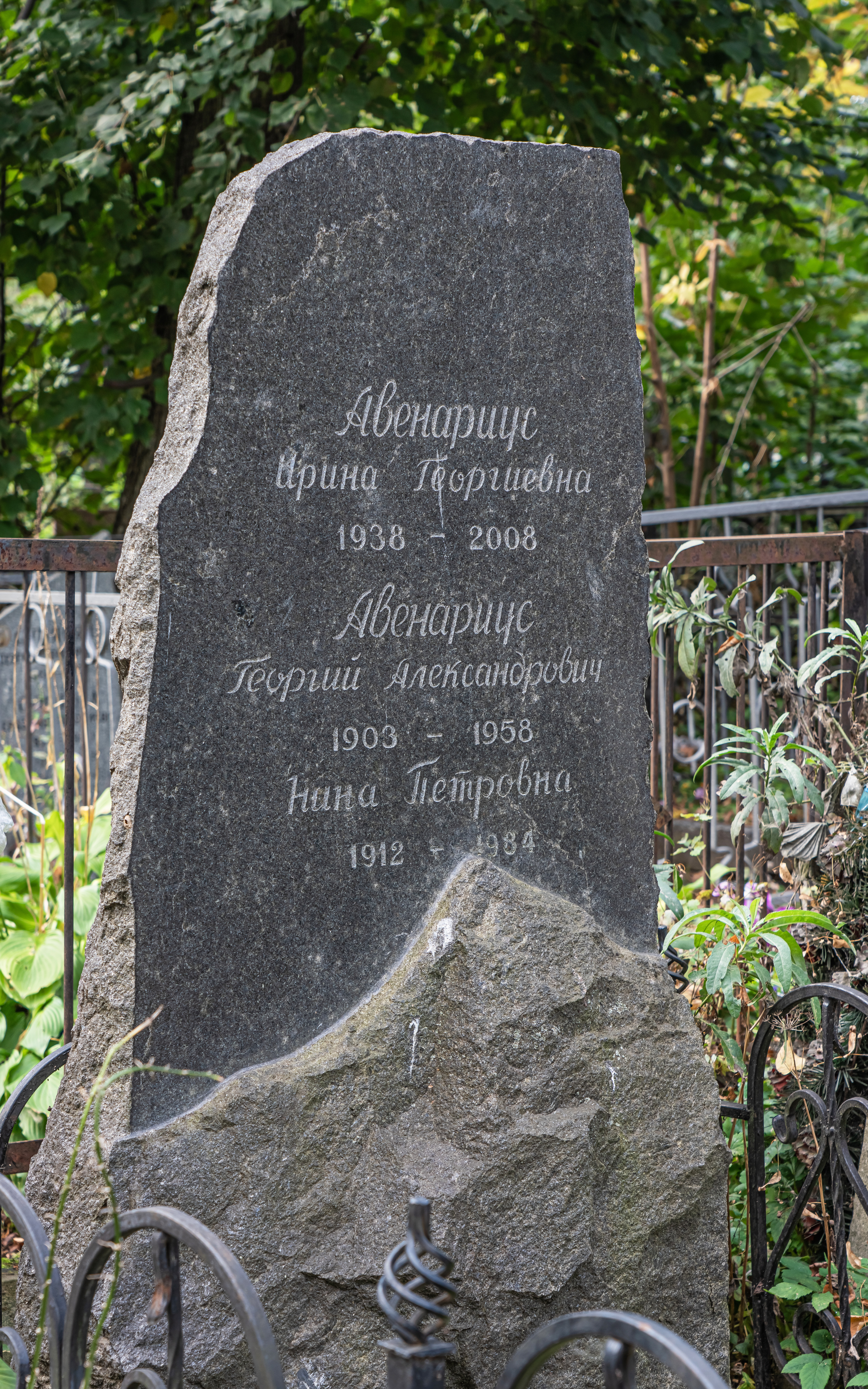 Gravestone of Georgy Avenarius on Danilovskoe Cemetery in Moscow, Russia